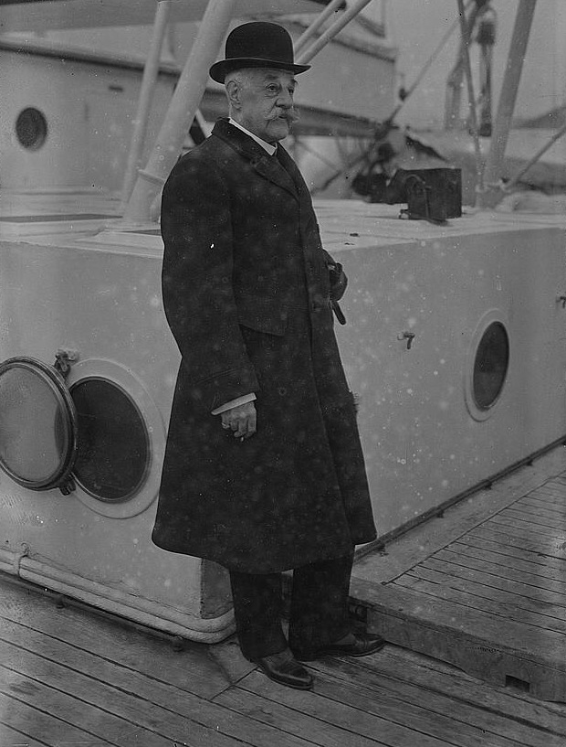 Ethelbert Watts, United States Consul-General in Brussels, 1907-1917